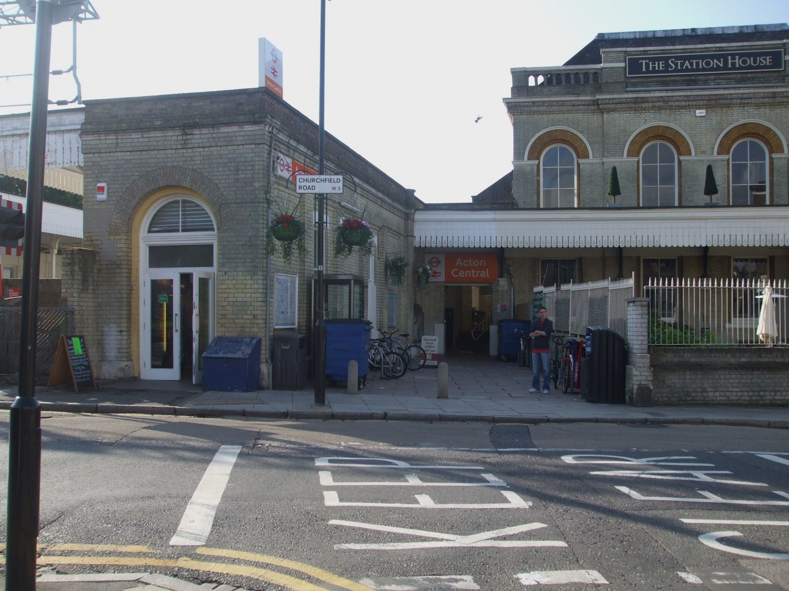 Acton Central station building. Much of the building has been converted to a pub, visible on the right.